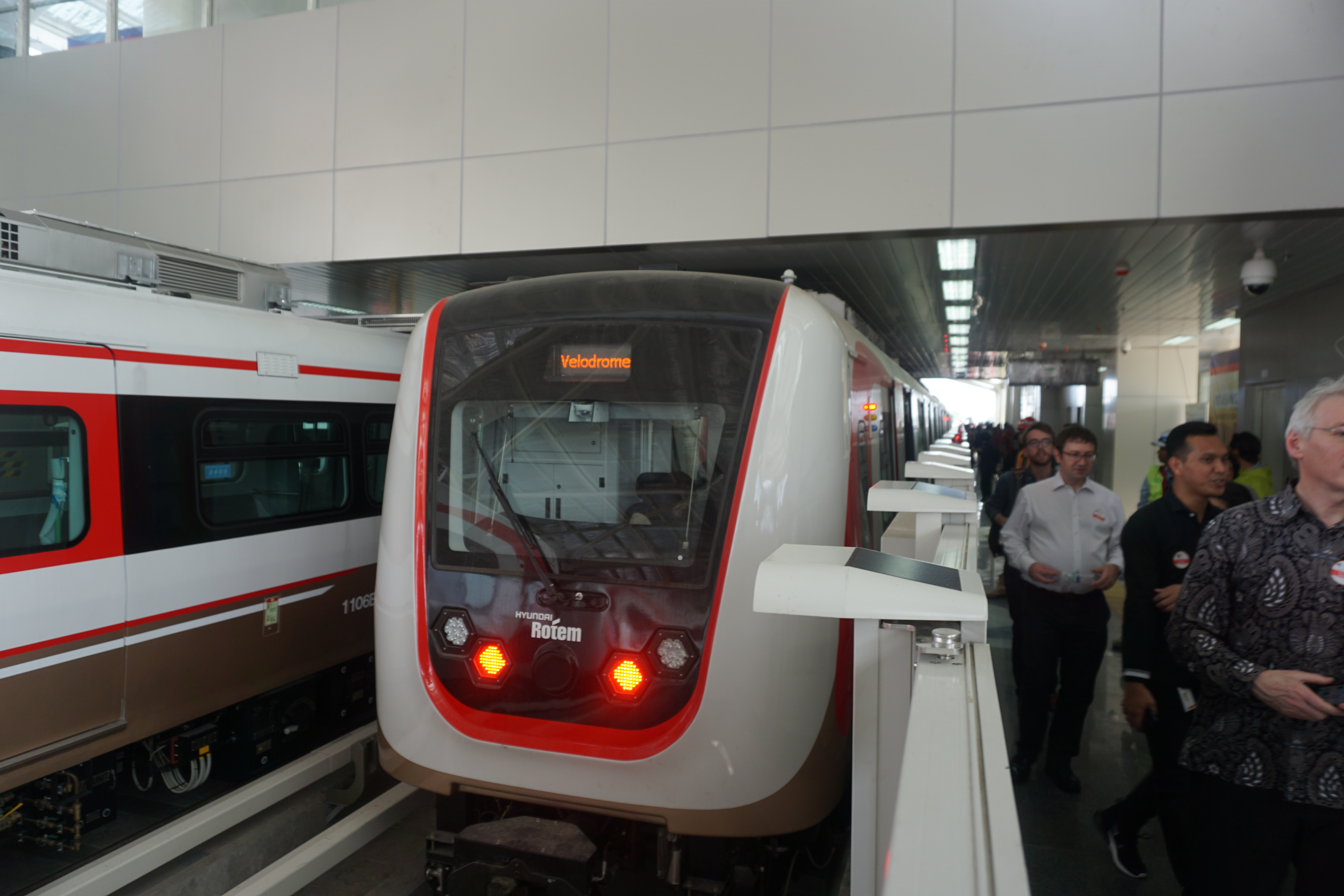 LRT Jakarta - Hyundai Rotem LRV in Boulevard Utara Station; taken during the limited trial period, 7 September 2018